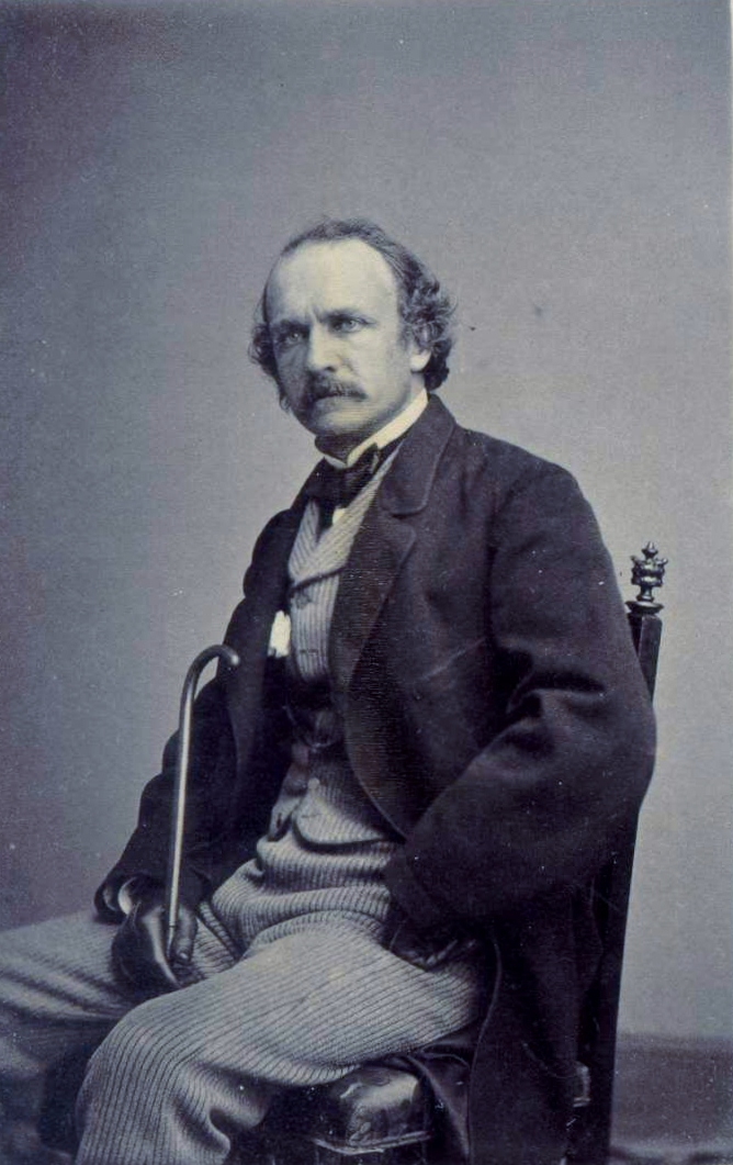 Felix Octavious Carr Darley (1822-1888). American illustrator. CDV.